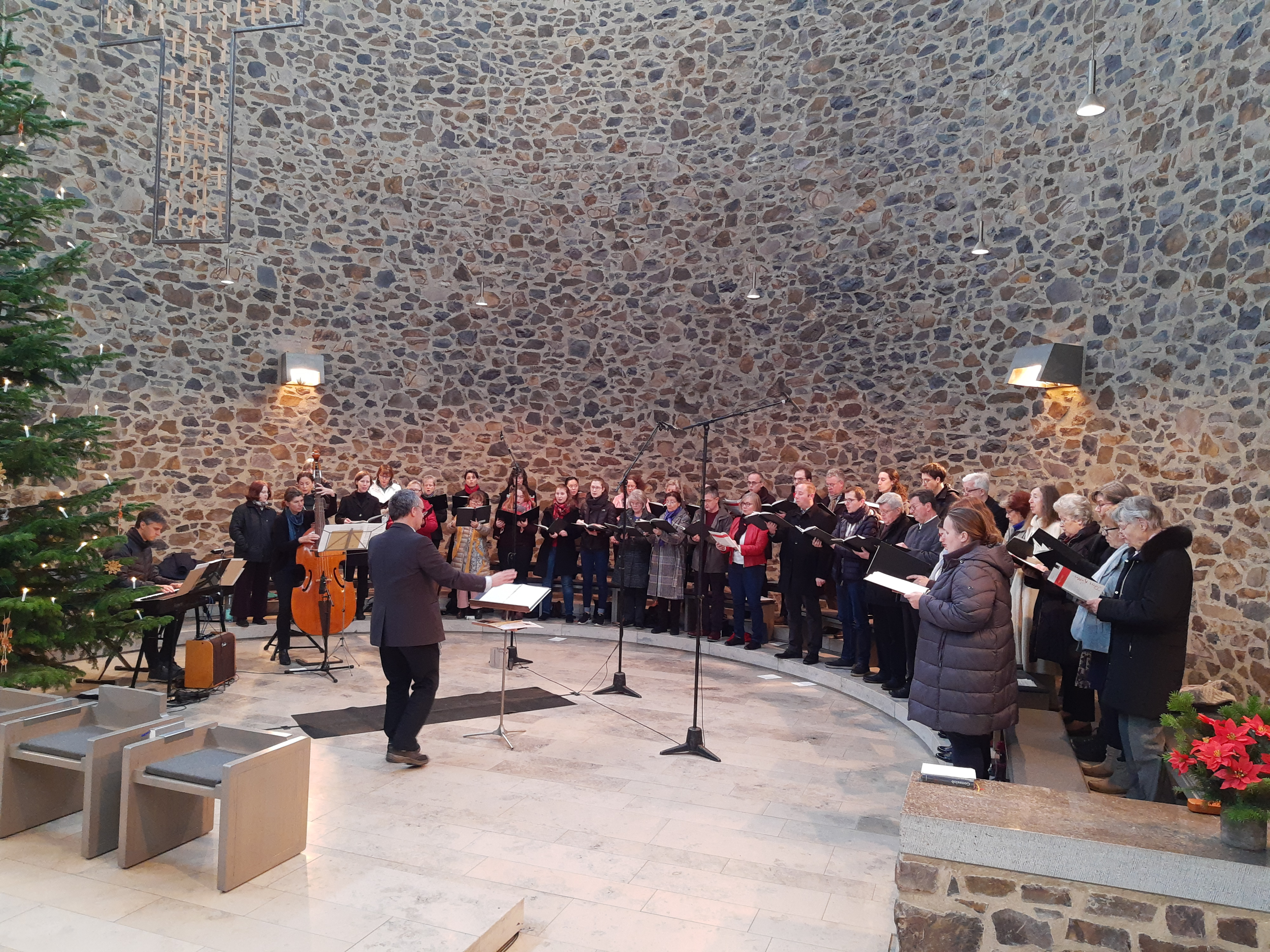 St. Martin, Idstein, project choir with piano and bass reheasing Rutter's Angels' Carol for a radio Christmas by hr4